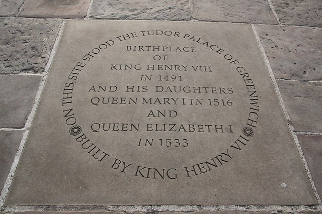 Placentia. Plaque in the Grand Square 1154508 the site of the Tudor palace of Placentia